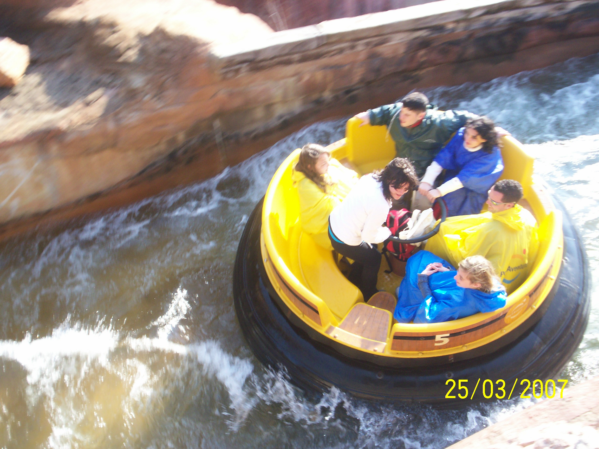 Quasi On Ride Grand Canyon Rapids photo